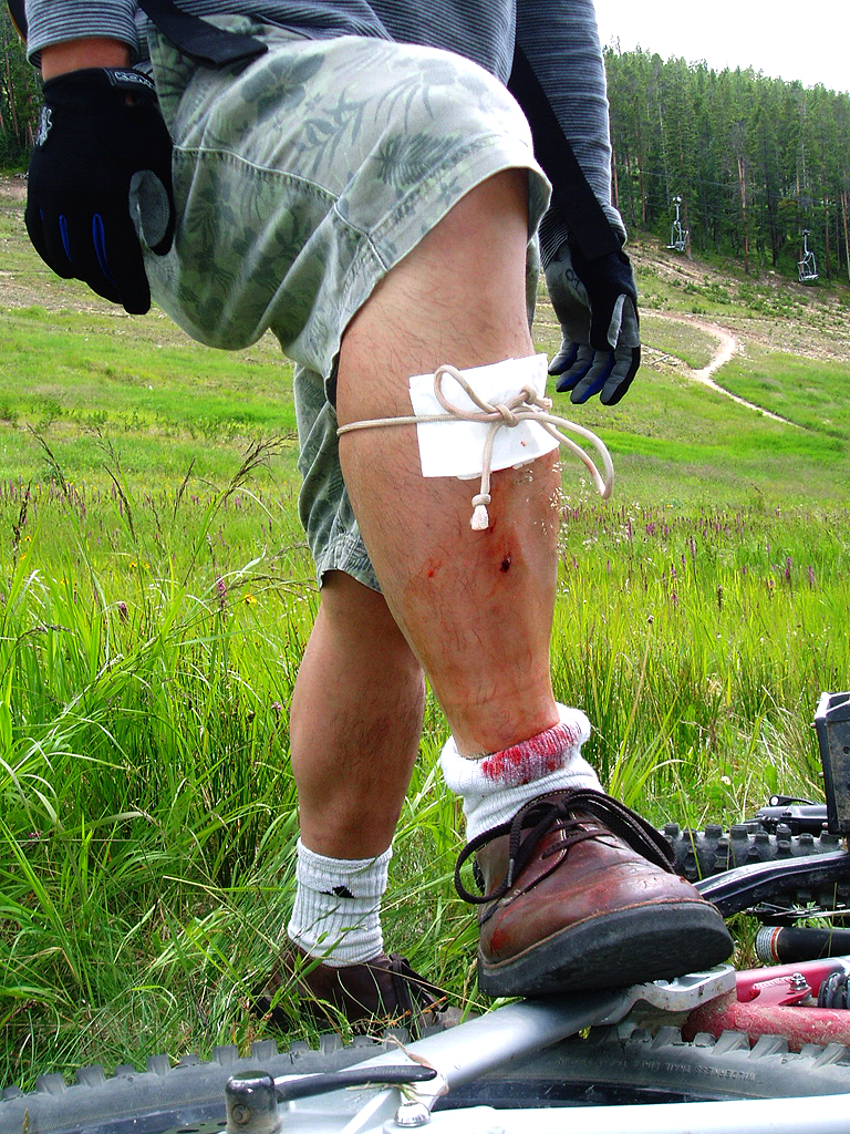 Anyone can bandage with bandages. It takes a keen sense of style and a unique approach to Preparedness in the Wilderness to bandage a wound with tiny tissues and parachute cord.